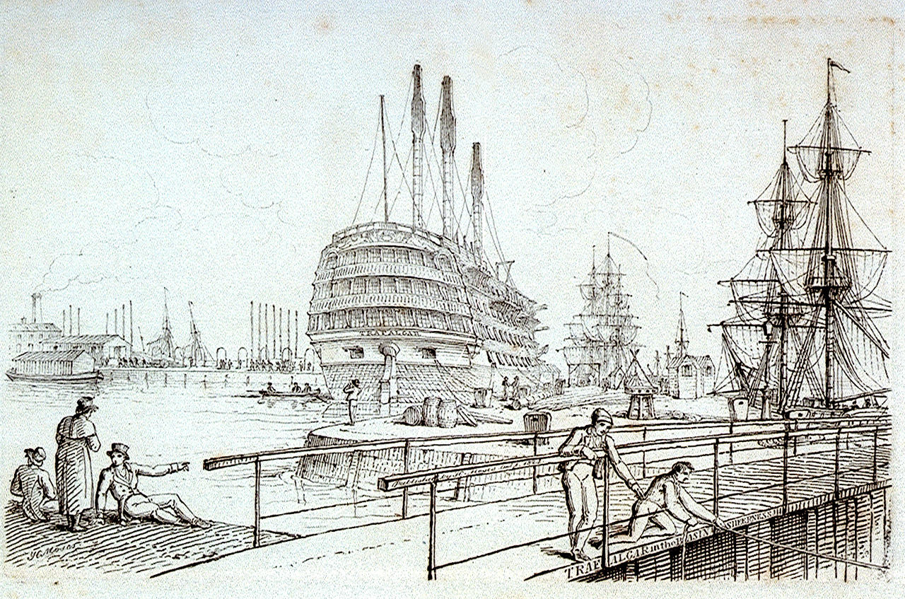 'Trafalgar' in the Basin Sheerness Print from Moses' Sketches of Shipping', entitled Trafalgar' in the Basin Sheerness'. Signed, inscribed and dated by the artist. Stern and starboard-quarter view of the ship in ordinary, (reserve) moored in the basin at Sheerness Dockyard. The view is over the lock gate leading out of the basin, with part of the yard buildings on the right. The ship's name is visible on her stern with a smaller vessel to the right. The preparatory drawing (PAE9947) is in the NMM collection. See also PAD7885, PAD7886 and PAD7887. 'Trafalgar' in the Basin Sheerness